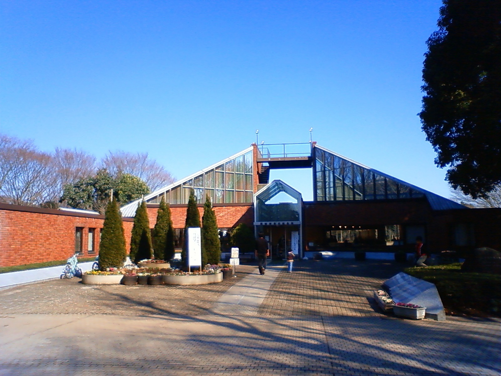 This is the Shintoshi Kinenkan or New city memorial, which is located in Doho park, Tsukuba, Ibaraki, Japan.